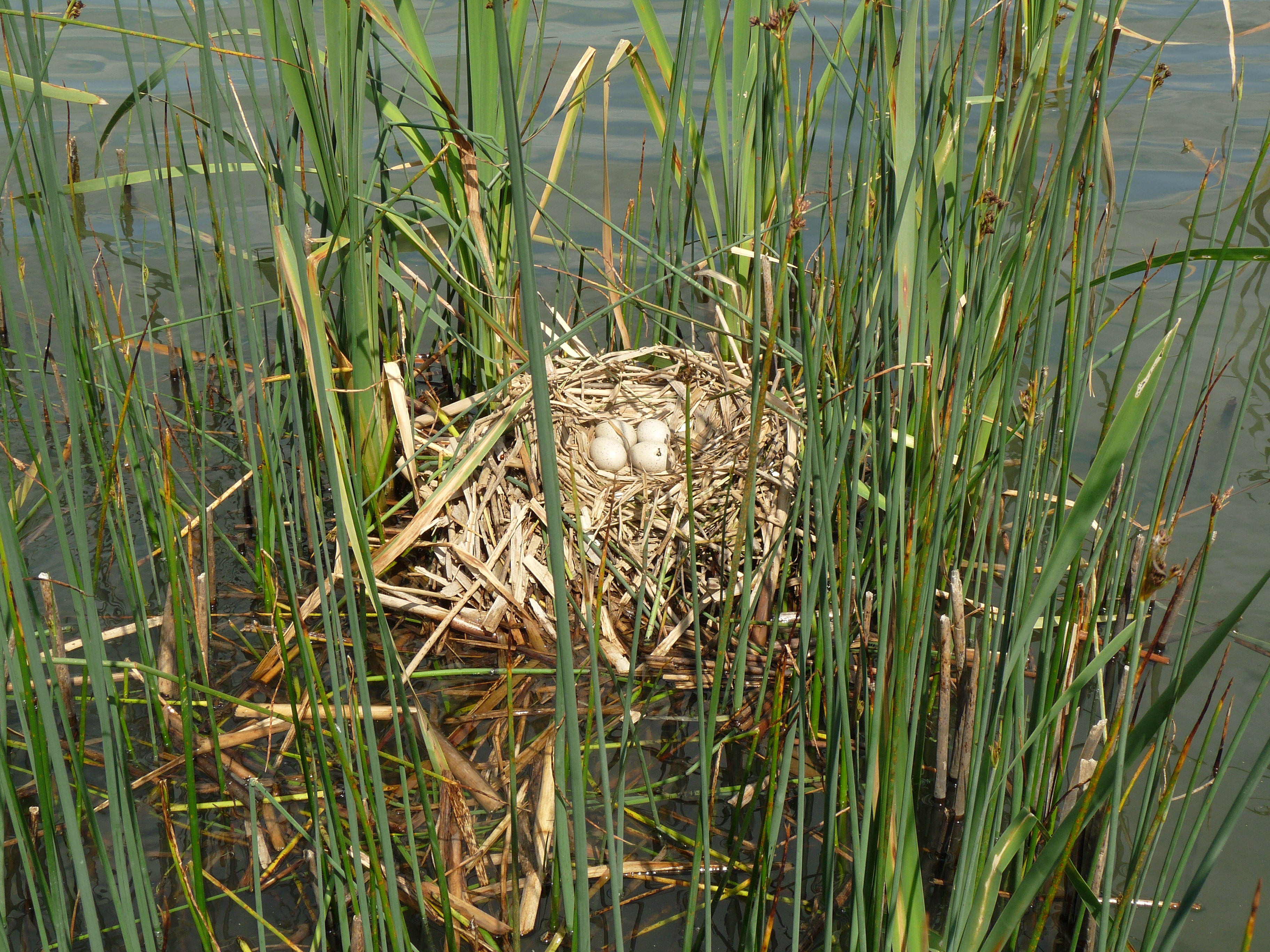 Latin name Fulica atra Family Rails (Rallidae) Overview All-black and larger than its cousin, the moorhen, it has a distinctive white... Where to see them ... When to see them All year round. What they eat Vegetation, snails and insect larvae.